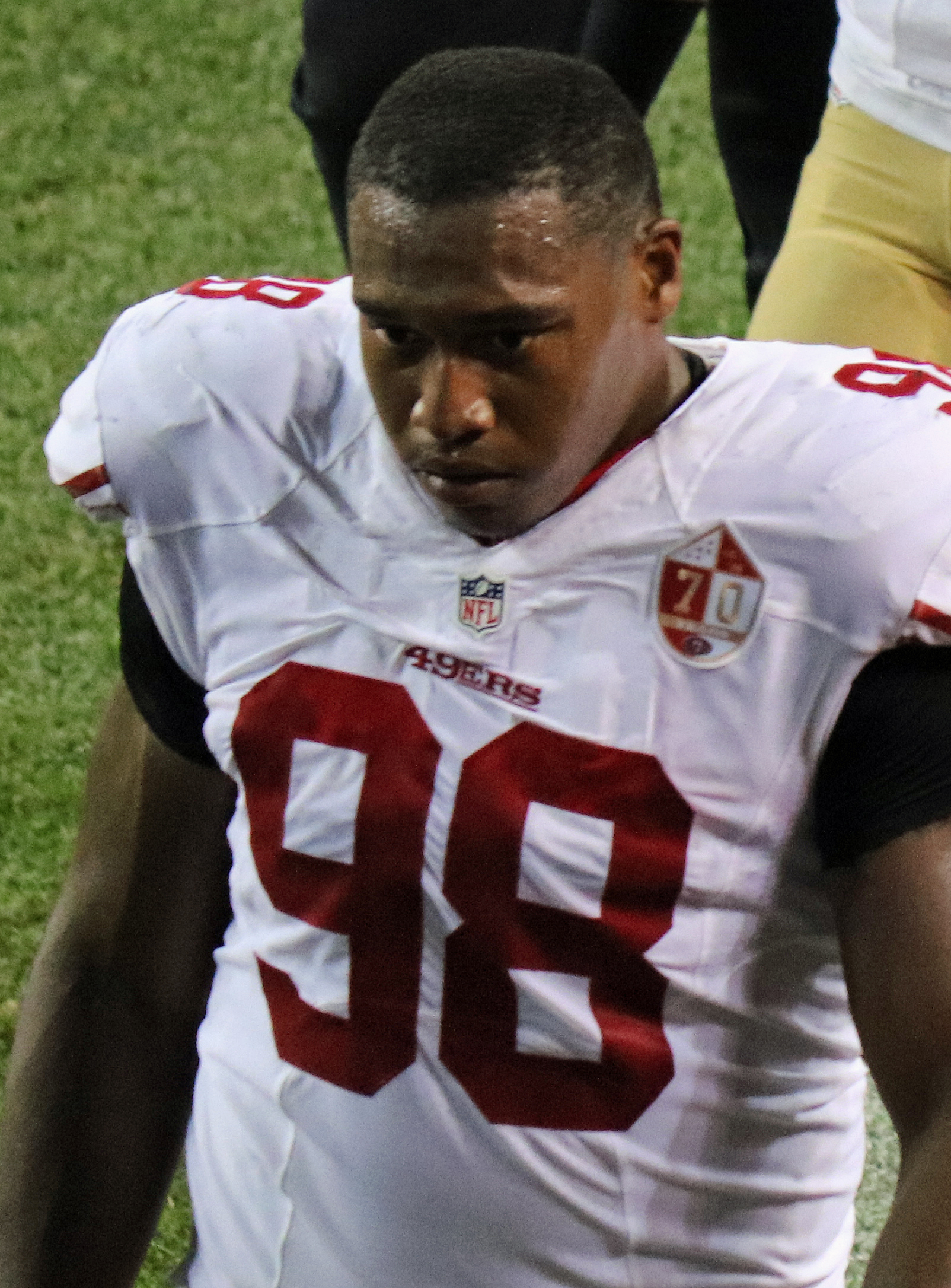 Ronald Blair, a player on the National Football League.